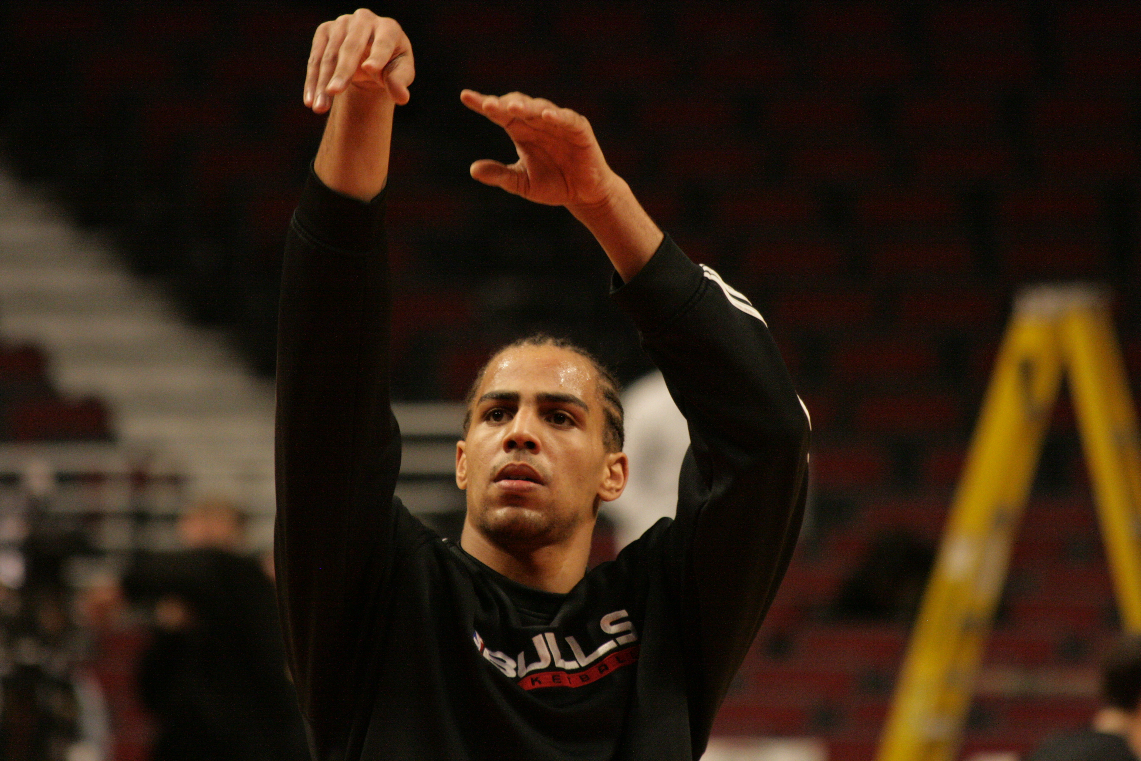 Thabo Sefolosha